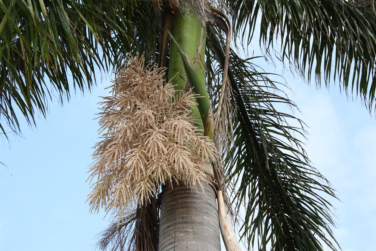 Roystonea regia inflorescence shortly after spathe popped off.